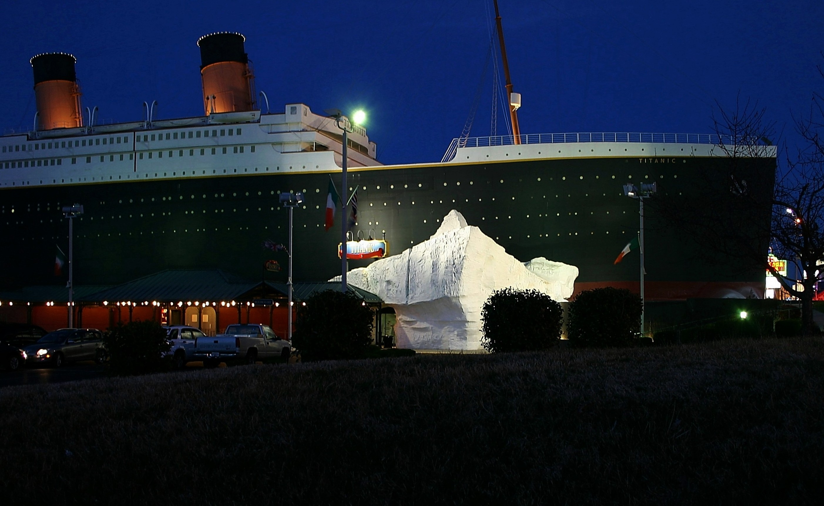 Titanic Museum in Branson (Missouri, USA), 2016